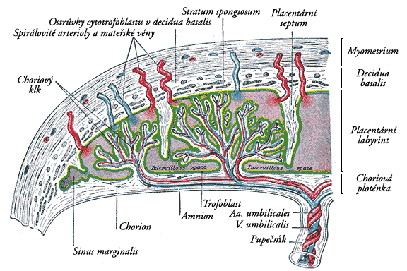 Scheme of the placentar blood circulation.